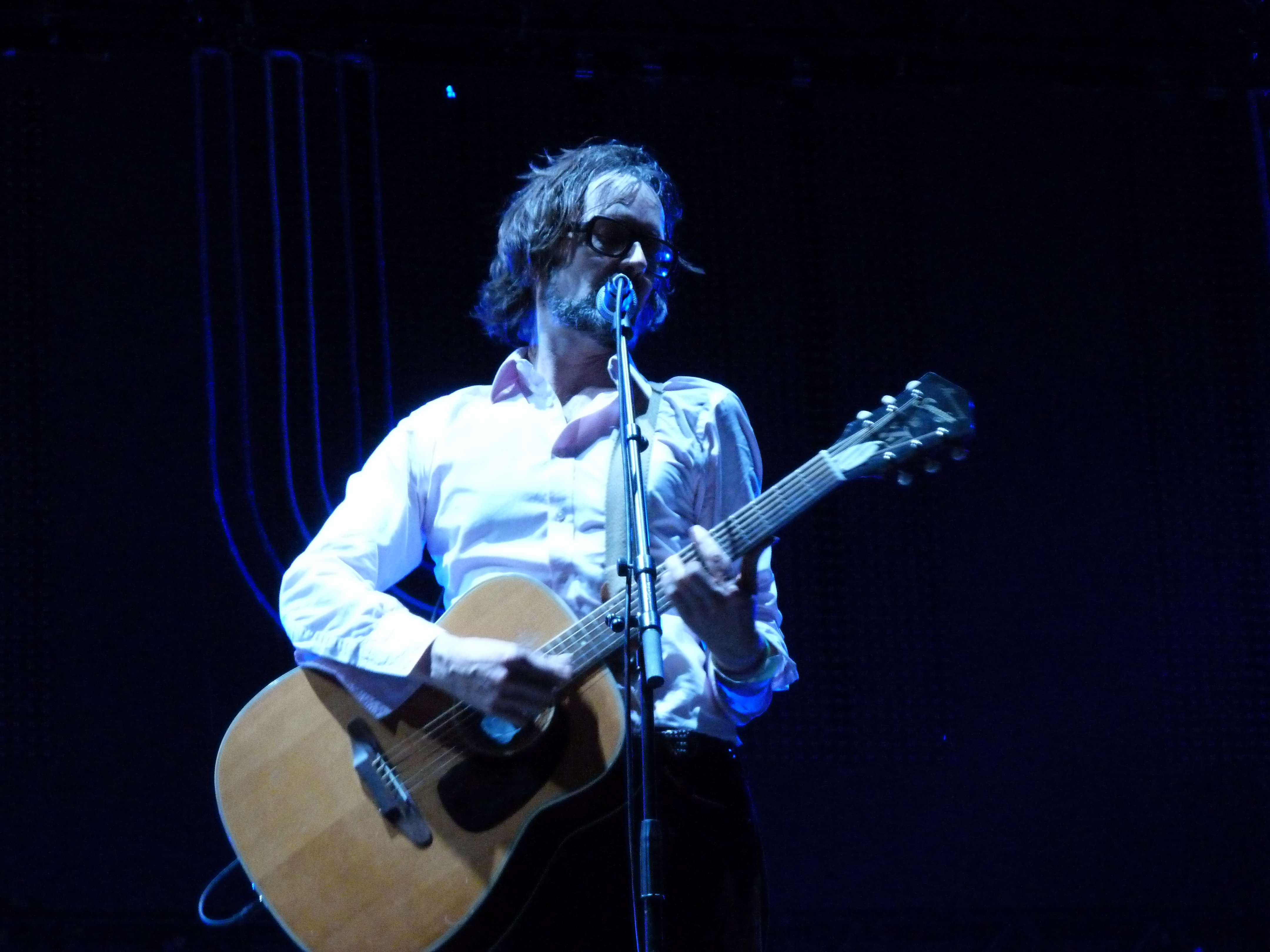 Live at the Sziget Festival, Budapest, on the 10th of August, 2011. The Pop-Rock Grand Stage, last band. The Pulp indie rock band formed in Sheffield in 1978. Their recent lineup consists of Jarvis Cocker (vocals, guitar), Russell Senior (violin, guitar), Candida Doyle (keyboards), Mark Webber (guitar), Steve Mackey (bass) and Nick Banks (drums). Published under Creative Commons in the Metapolisz DVD line.